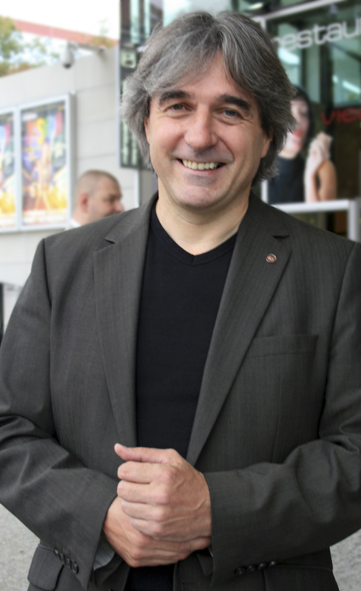 Austrian politician Erwin Buchinger at the kick-off event of the Social Democratic Party of Austria for the campaign for the legislative election 2008.